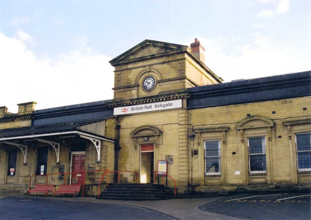 Wakefield Kirkgate Railway Station, as of December 2004. Although British Rail ceased to exist over a decade ago, the sign has not been updated. Taken by me with an Olympus AZ-4 using Fujicolour superia 400 film developed at Boots the Chemist and scanned in on a Lexmark X73.